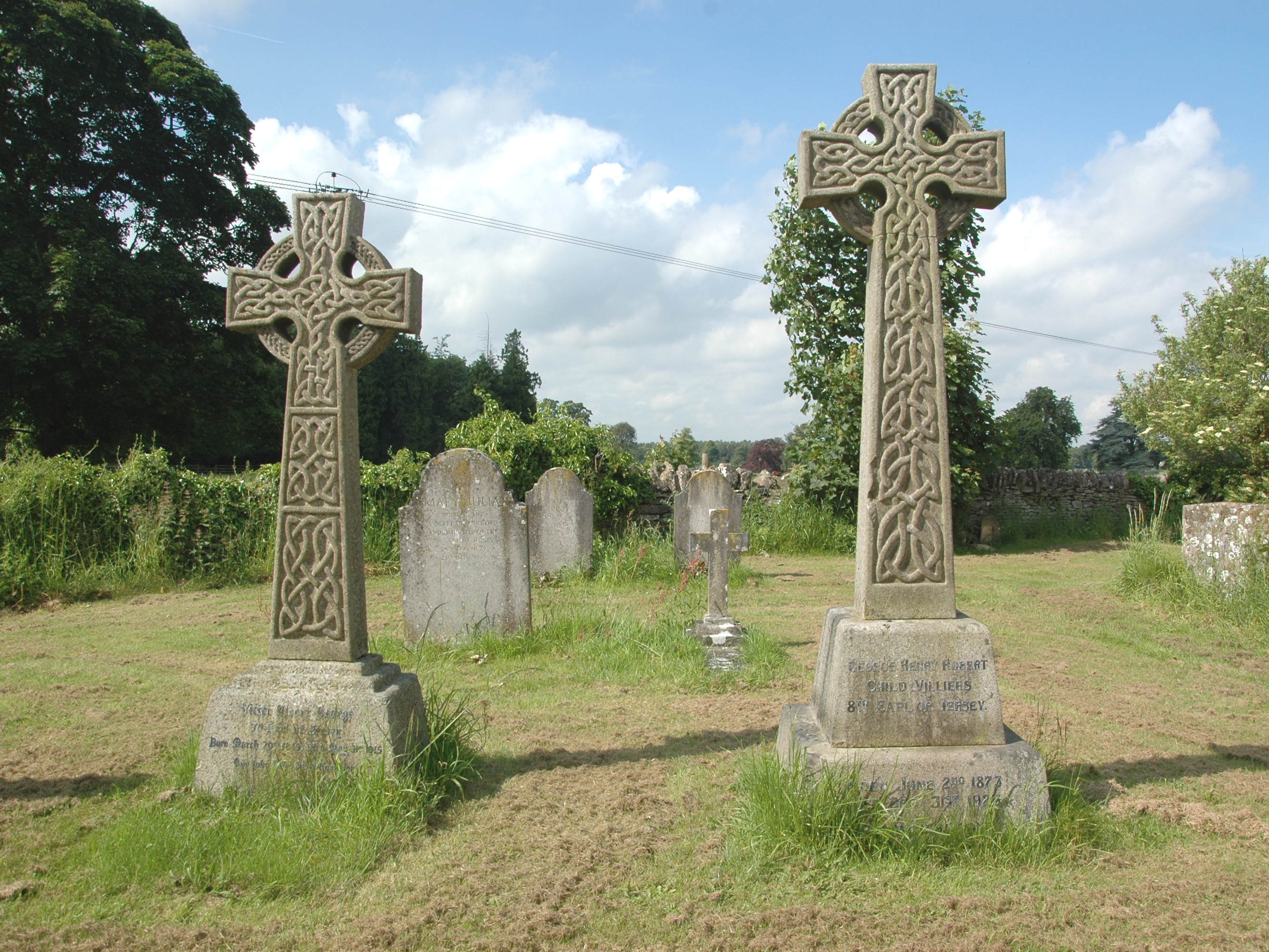 Church of England parish church of All Saints, Middleton Stoney, Oxfordshire: graves of the 7th Earl of Jersey (died 1915) and 8th Earl of Jersey (died 1923)